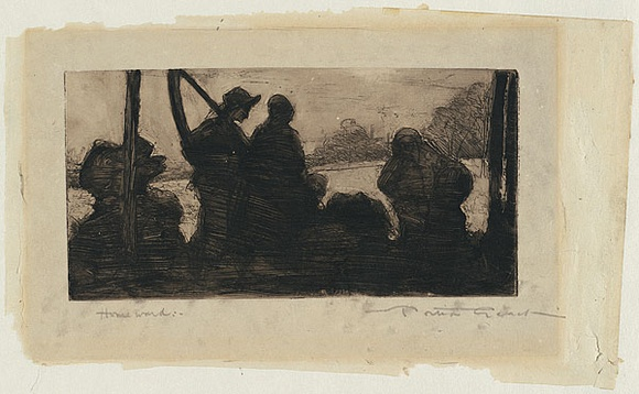 Etching "Homeward" by Australian artist Portia Geach